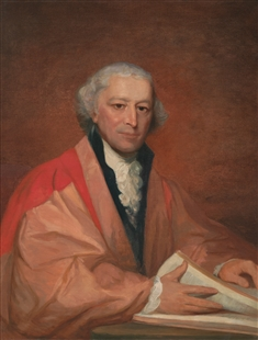 William Samuel Johnson, by Gilbert Stuart, U.S. government property, National Portrait Gallery Category:Vermont State Colleges This painting is in a private collection and is not U. S. Government Property. On the National Portrait Gallery website they do not provide an image of this picture and state that the image is "restricted."